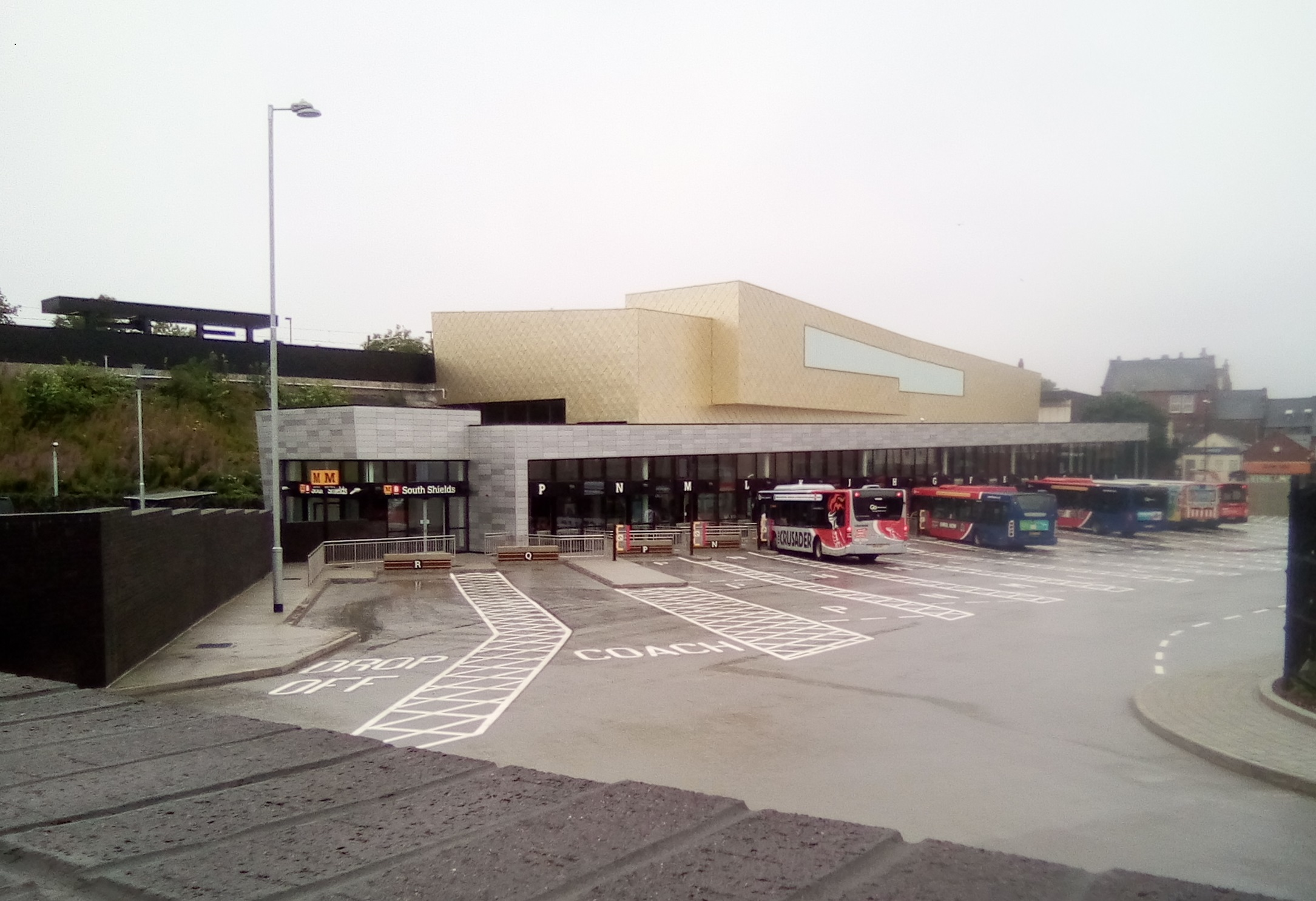 South shields interchange after opening